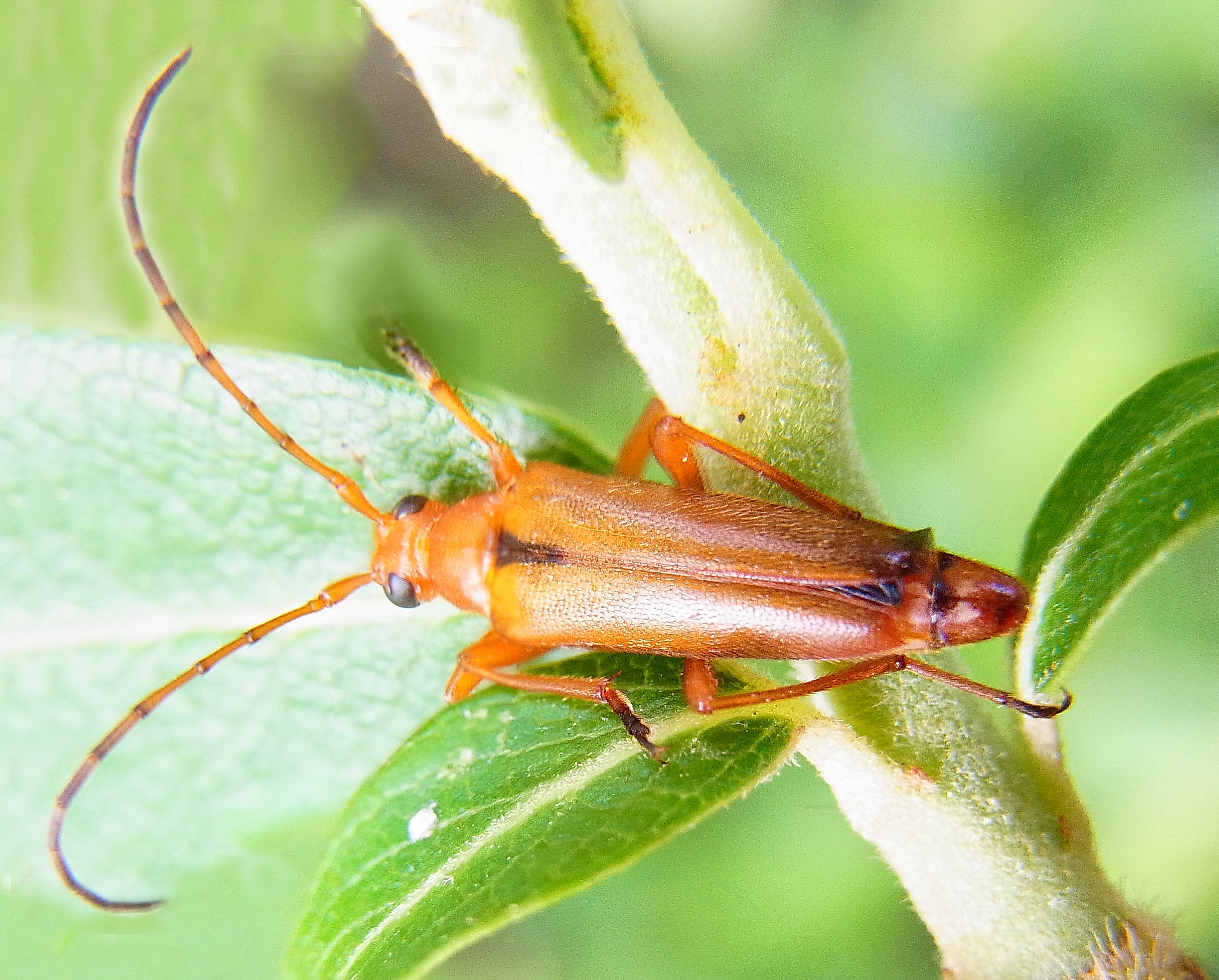 Pedostrangalia revestita with brown elytra from France Barbotan les Thermes at willow at 2013-05-10